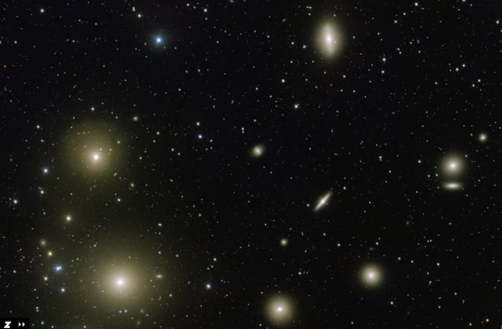 NGC 1381: crop of VST image of the Fornax Galaxy Cluster The Fornax Galaxy Cluster is one of the closest of such groupings beyond our Local Group of galaxies. This new VLT Survey Telescope image shows the central part of the cluster in great detail. At the lower-right is the elegant barred-spiral galaxy NGC 1365 and to the left the big elliptical NGC 1399. Credit: ESO. Acknowledgement: Aniello Grado and Luca Limatola